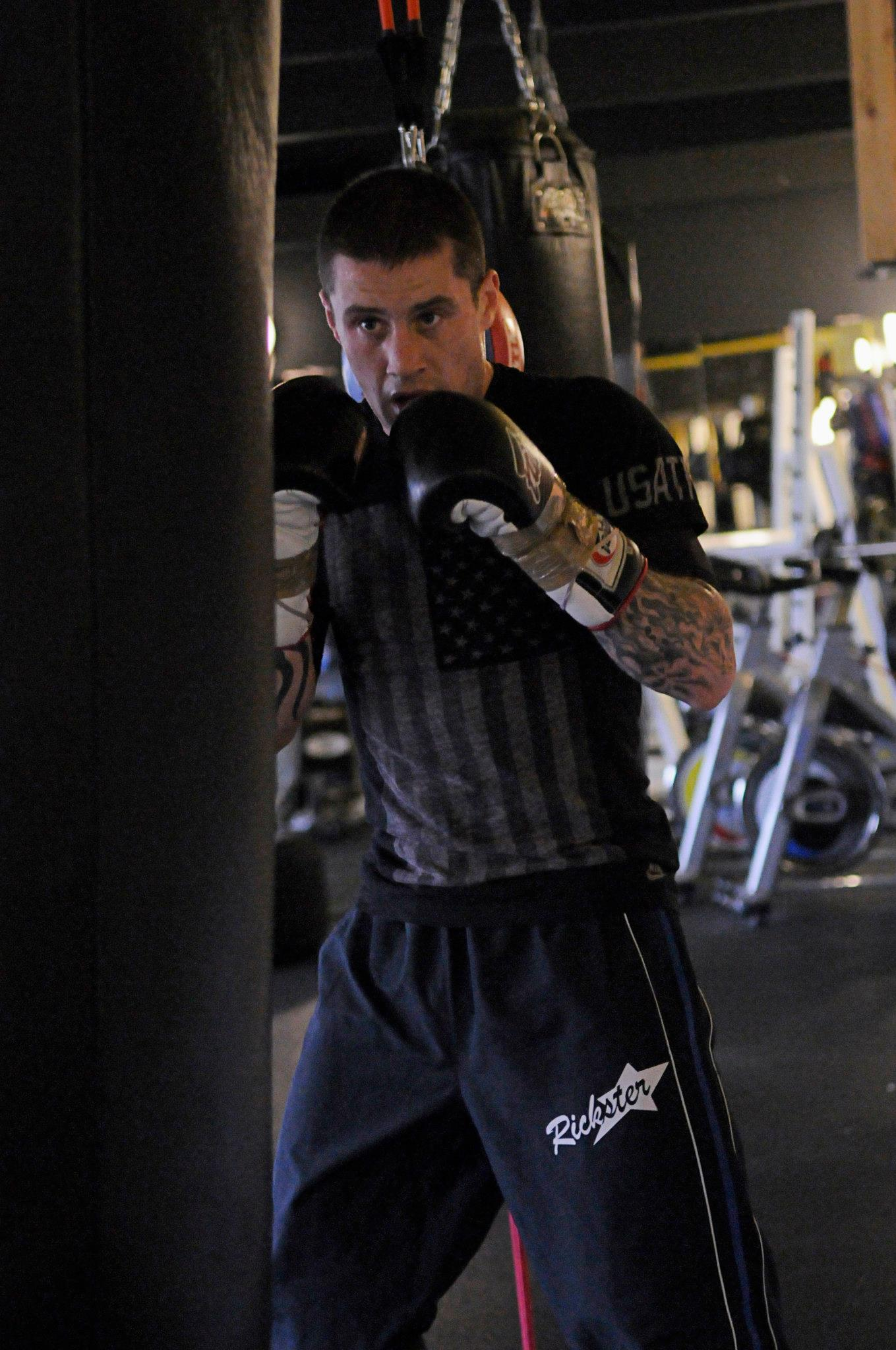 Picture of boxer Ricky Burns training at his gym in Scotland